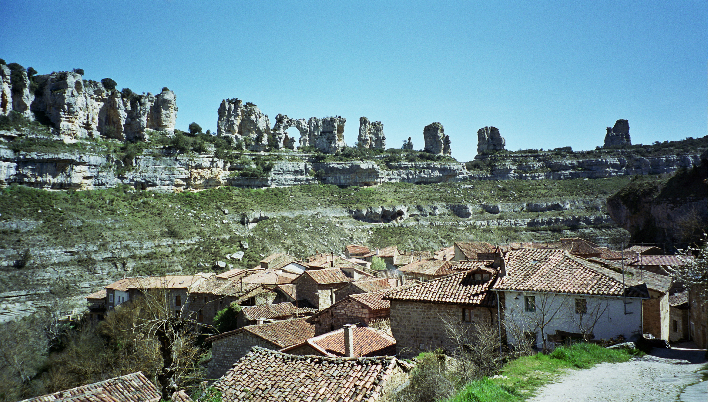 Orbaneja del Castillo, Burgos (Spain).